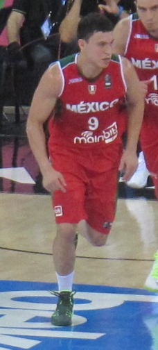 Francisco Cruz during 2014 Basketball World Cup